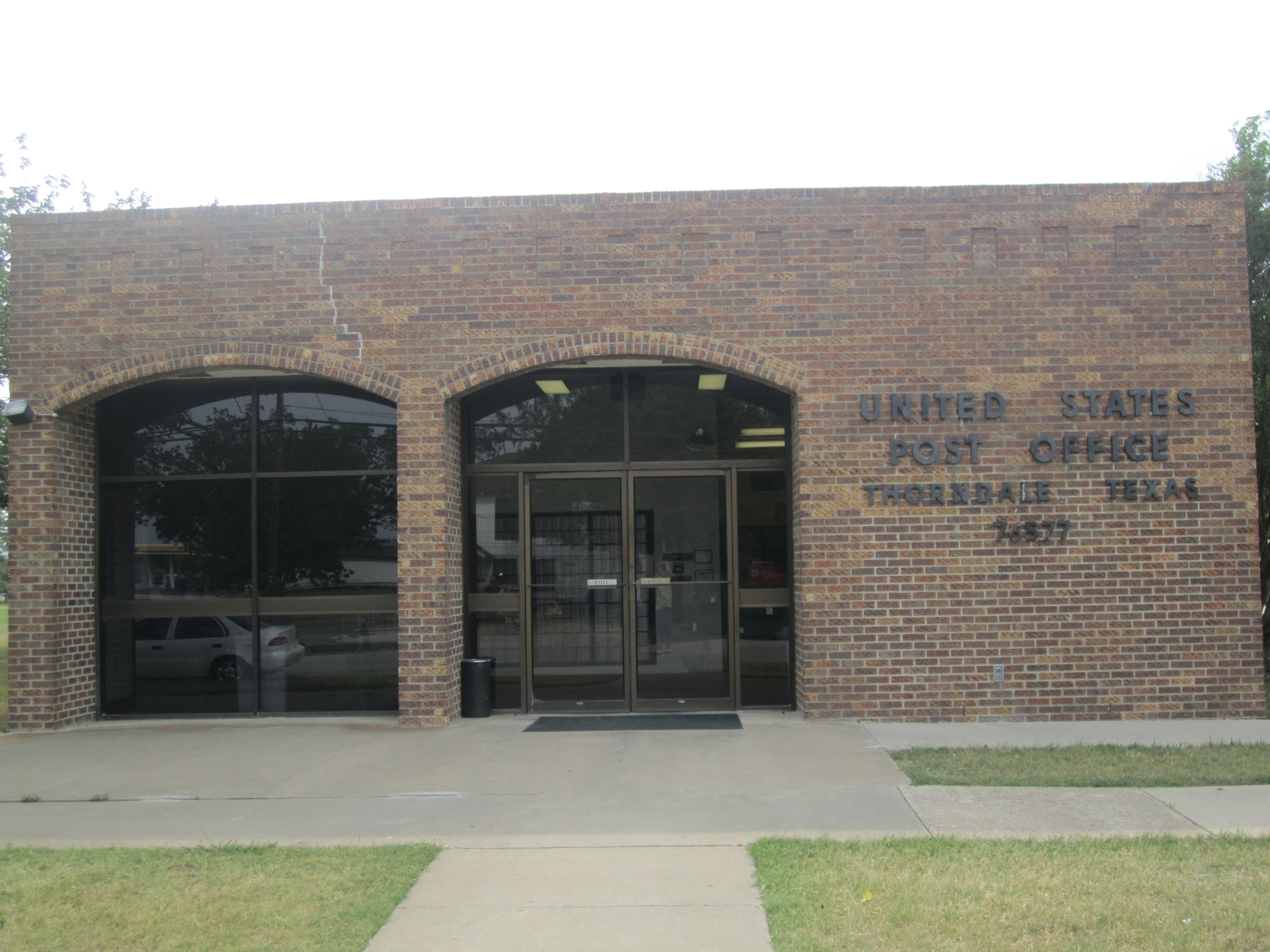 I took photo with Canon camera in Thorndale, TX.